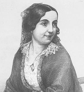 Catherine Hayes, Irish opera singer